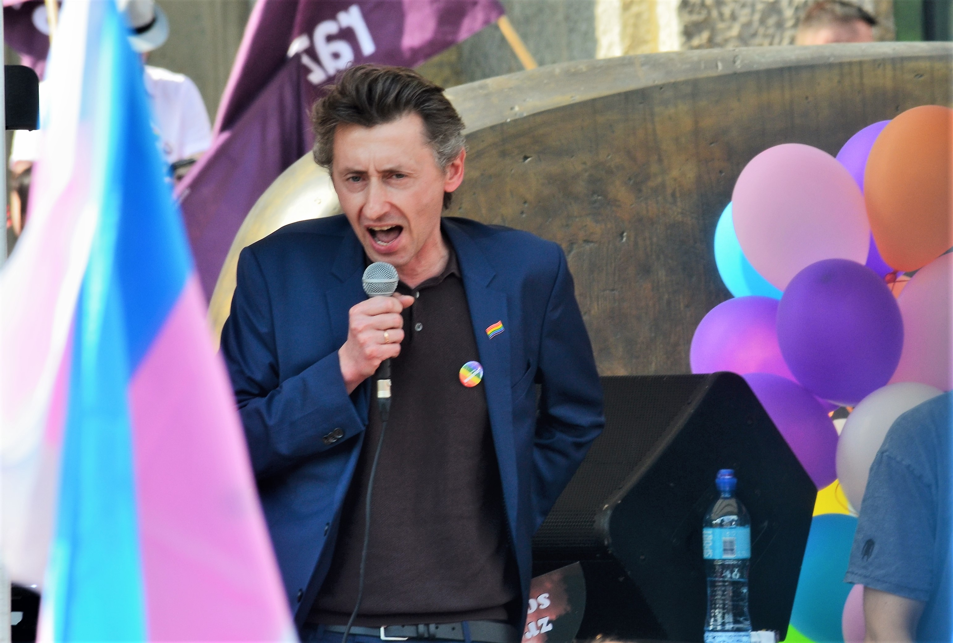 Maciej Gdula, Kraków Pride Parad